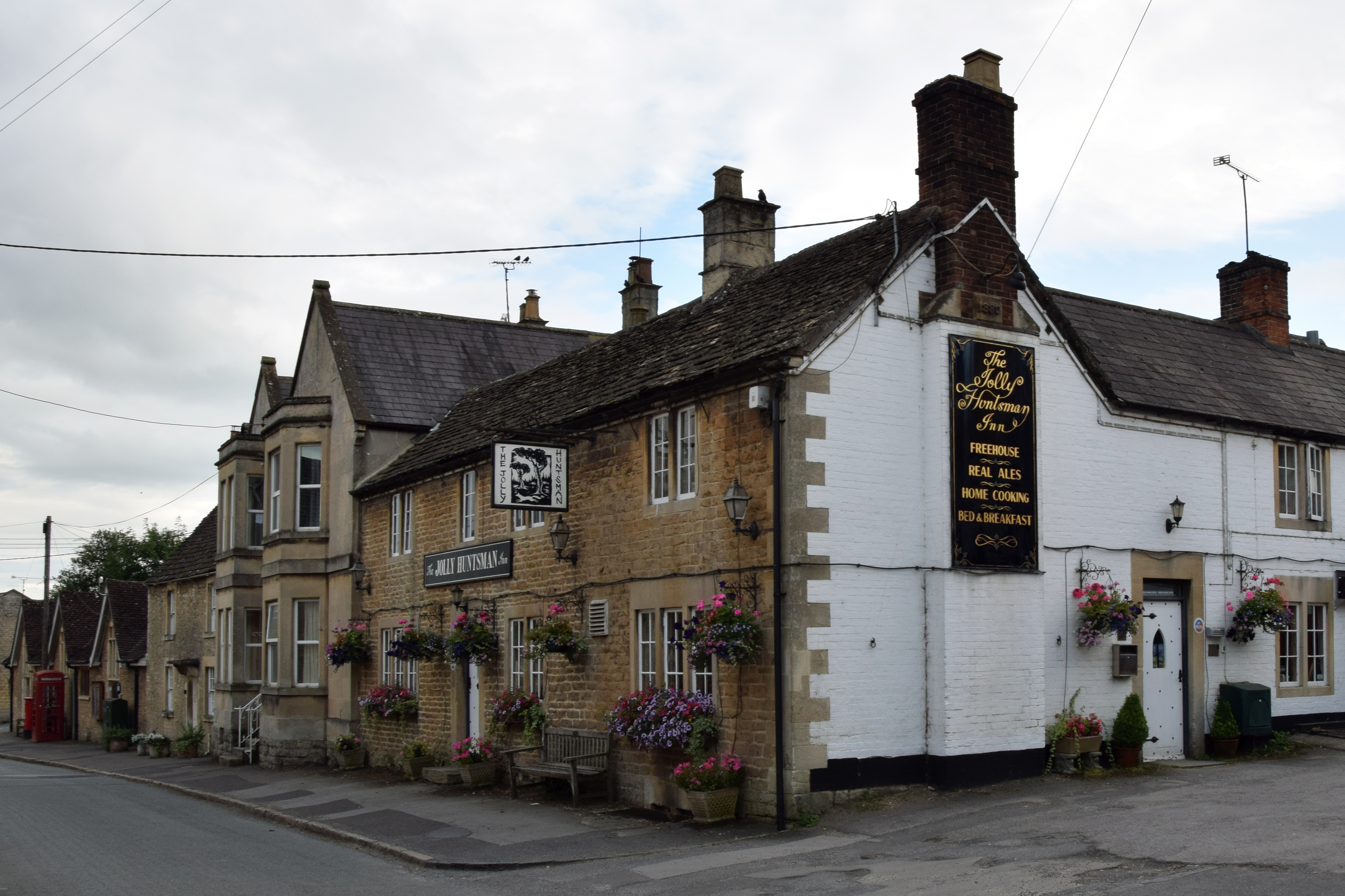 The Jolly Huntsman Inn Wikidata has entry Q26645638 with data related to this item.